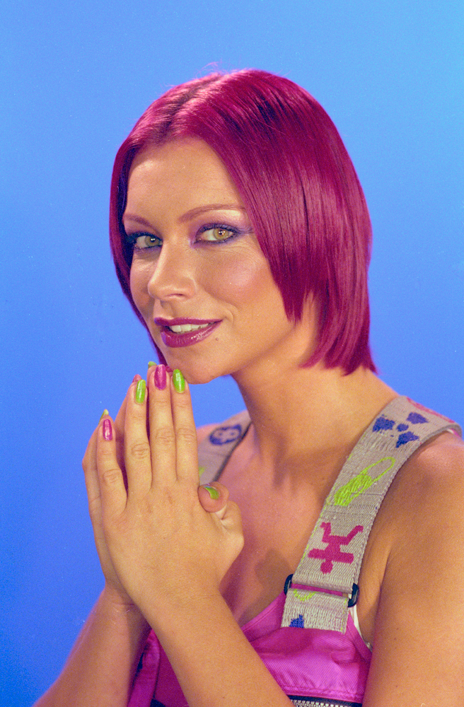 Cindy Pielstroom in 1999